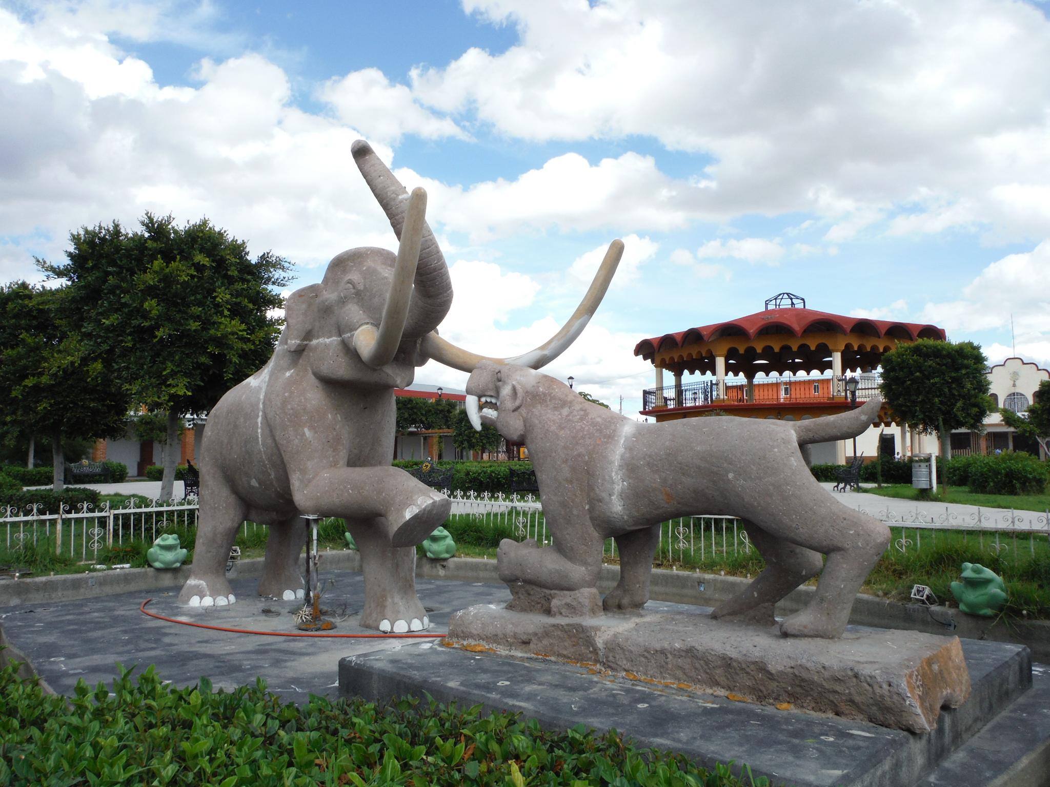 Mamuth and tiger sculpture, Center, San Miguel Tocuila, Texcoco, State of Mexico, Mexico